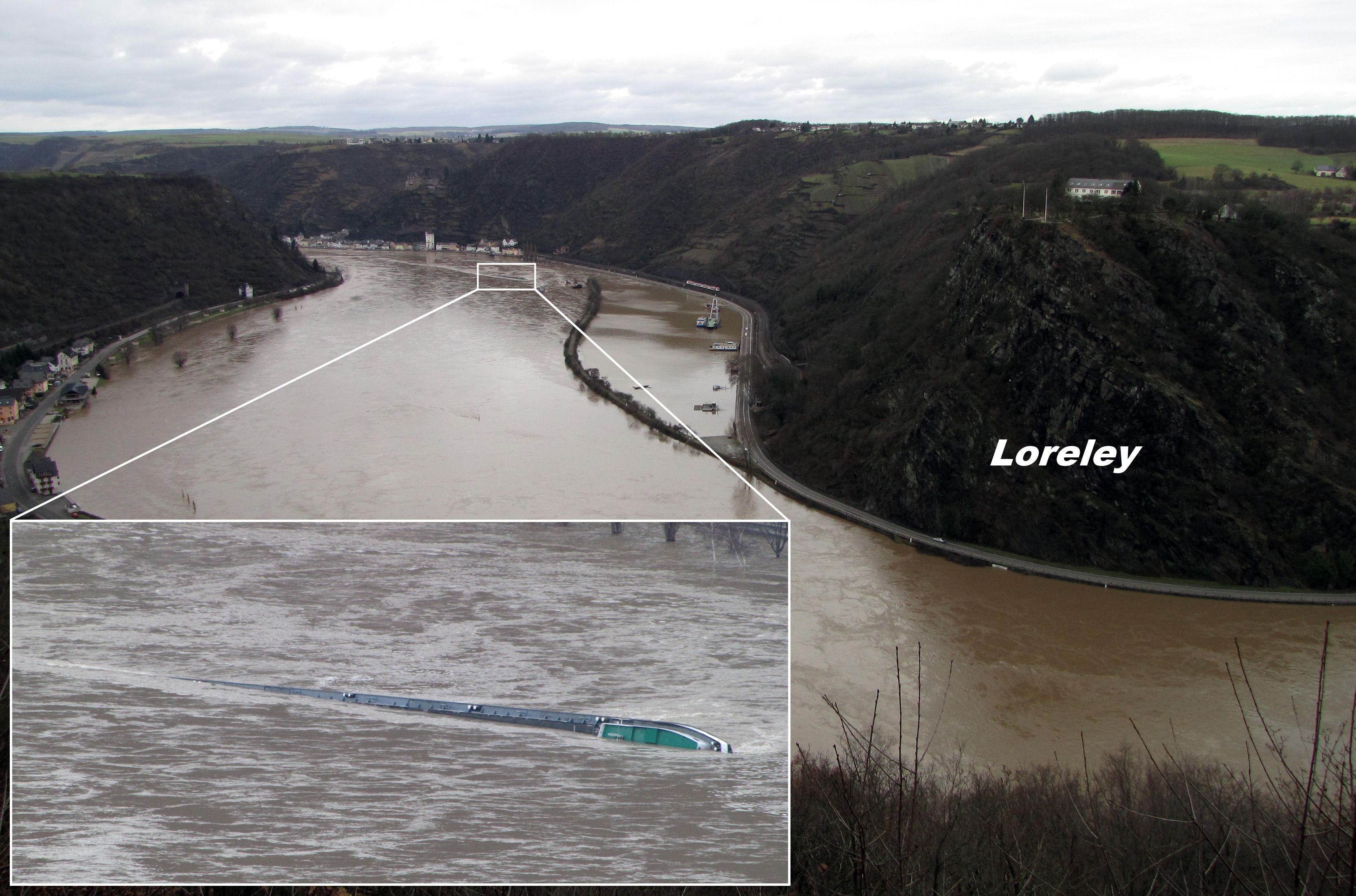 'Waldhof' tank-ship capsizing near Loreley at river Rhine